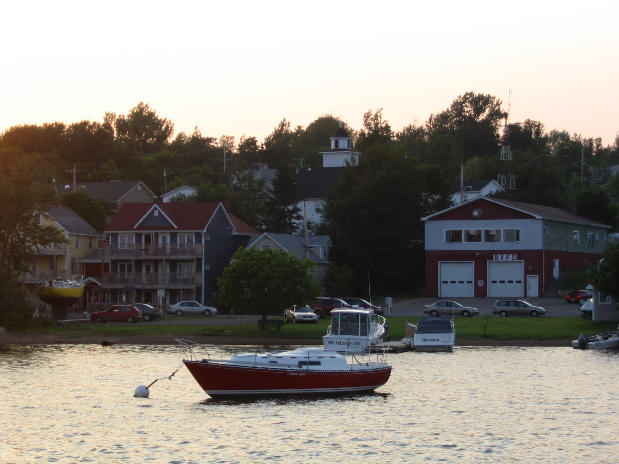 Baddeck in Nova Scotia, Canada, as seen from the port. Summer 2006